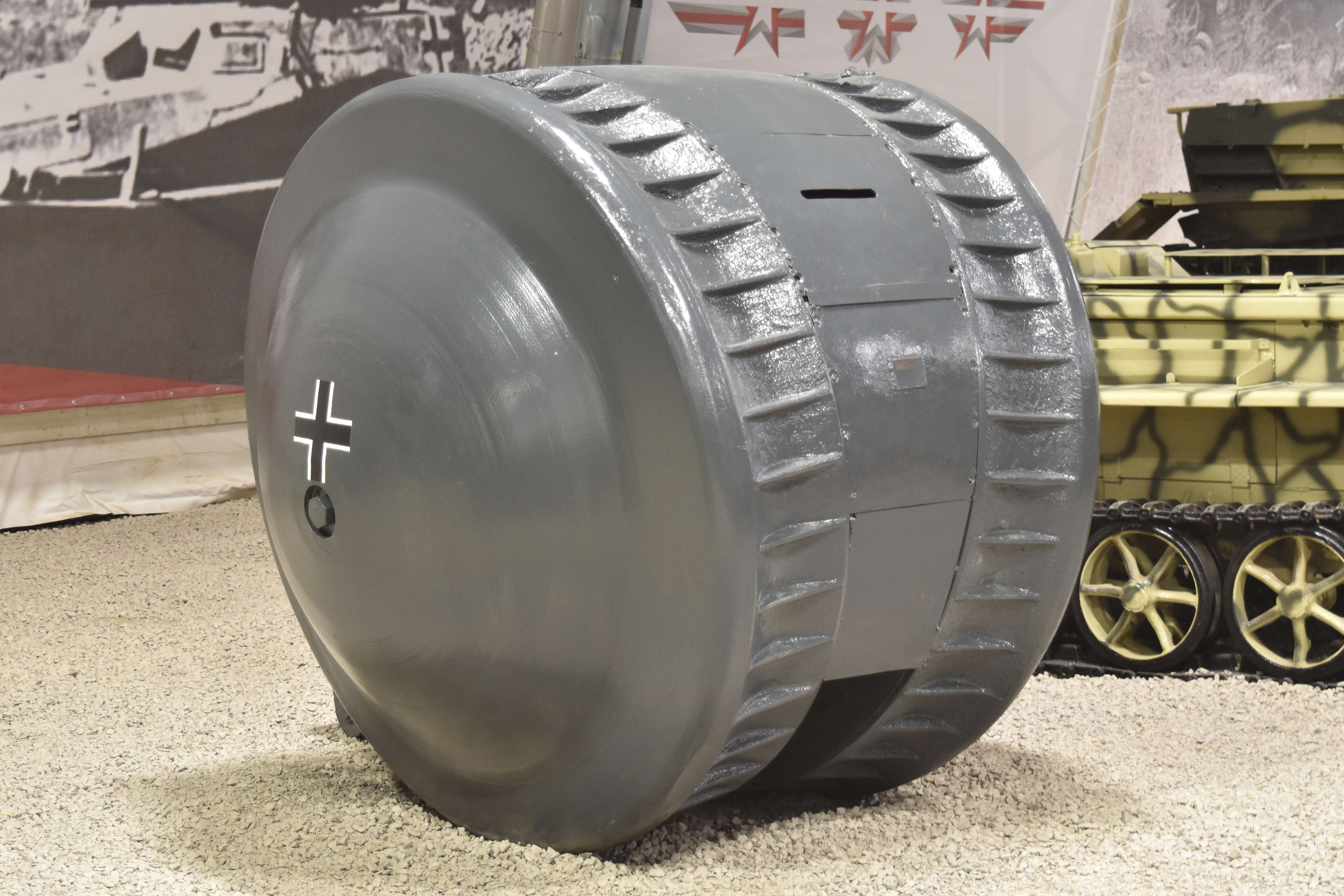 German WW2 era Light Reconnaissance Rolling Vehicle Very little is known about this one-off prototype, other than it is one man scouting vehicle built by Krupp and only has 5mm armour on the hull. No details have ever been released about the inner workings of the vehicle other than that it was powered by a single cylinder two-stroke engine. The material the hull was constructed from also seems to be a well-kept secret for some reason. Not visible from this angle is the small ‘tail’ which keeps the vehicle upright from behind. It is usually reported that it was captured by Soviet forces in Manchuria in 1945, having previously been sent to the region as part of the technology sharing scheme between Germany and Japan, however it has also been suggested that it was instead captured at the Kummersdorf testing grounds in Germany at the same time as the prototype Maus tank. Since being taken to Russia this mysterious prototype has been kept at Kubinka and is now on display in Hall 10 of the Patriot Museum Complex. Park Patriot, Kubinka, Moscow Oblast, Russia. 25th August 2017